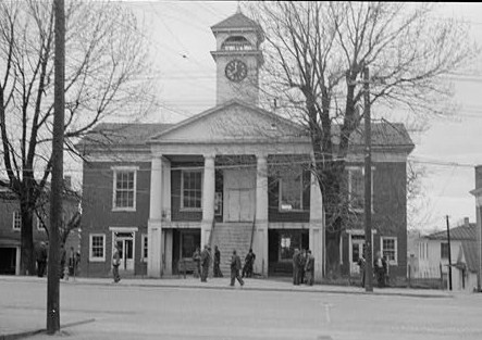 Pittsylvania County Courthouse (Virginia).(cropped)